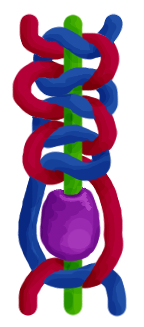 Macrame squere knot bracelet with beads.